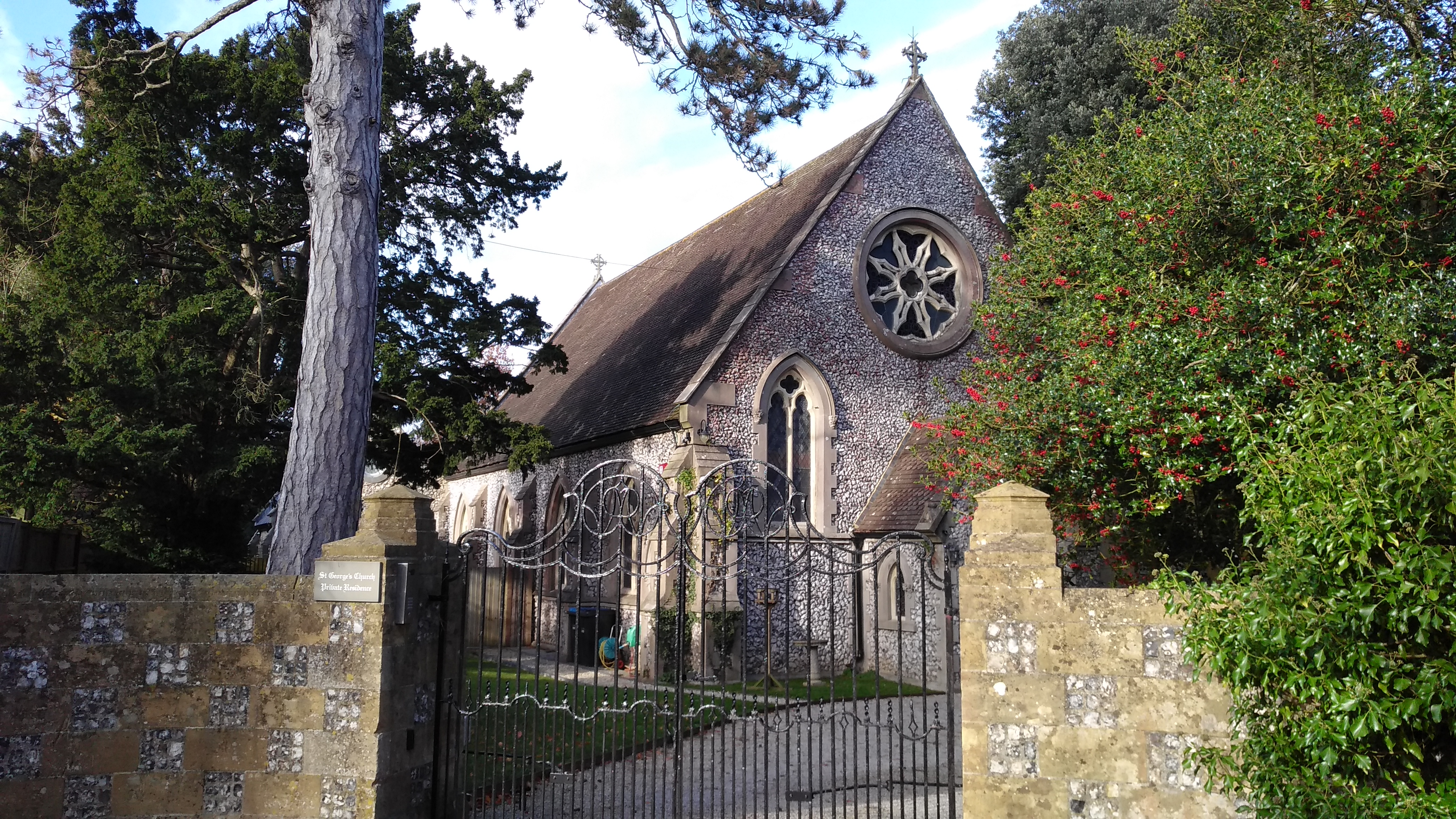 Former church of St George, St George's Lane, Hurstpierpoint, West Sussex, seen from the south. Deconsecrated in 2012 and converted into a private house.